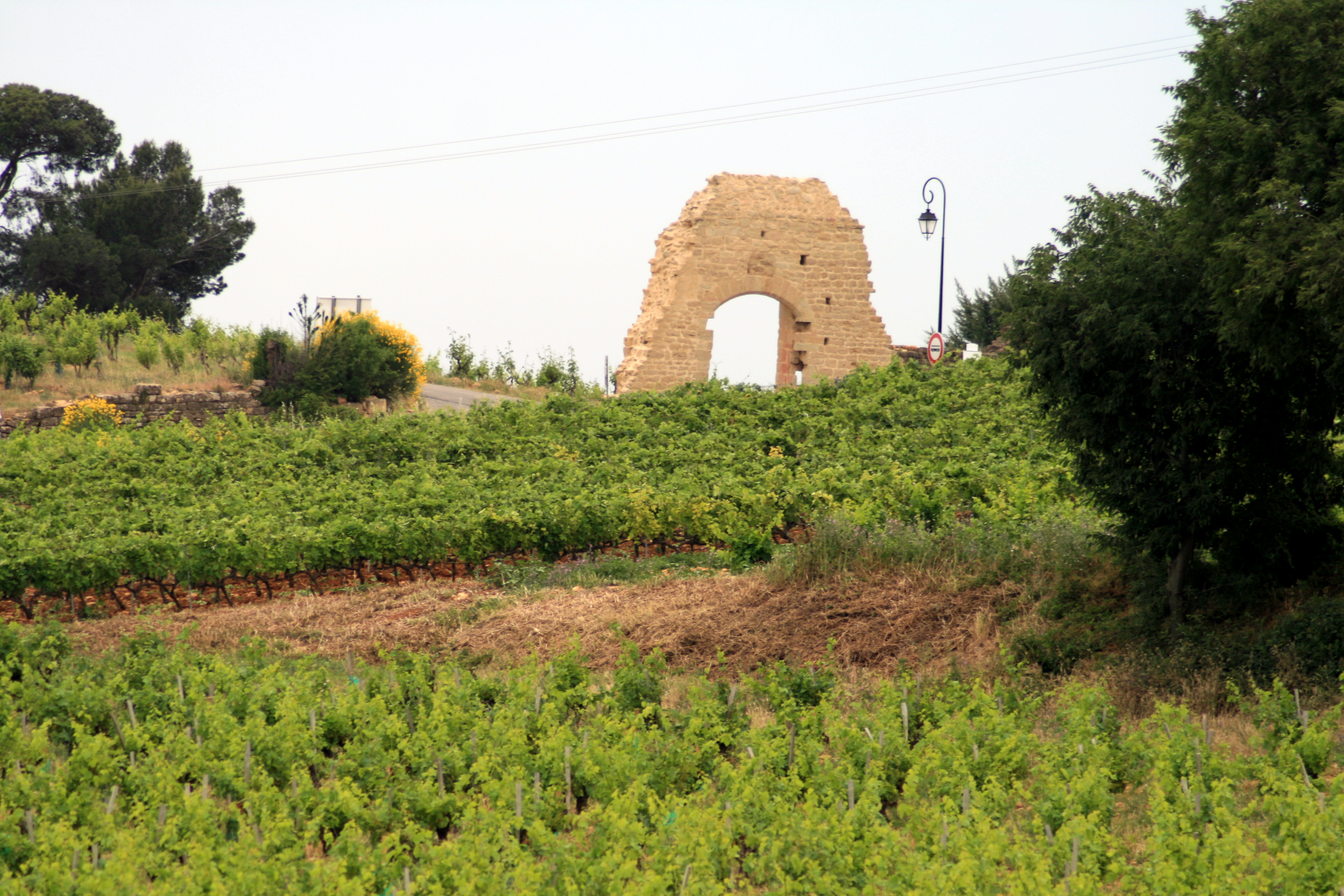 Spring at Châteauneuf-du-Pape